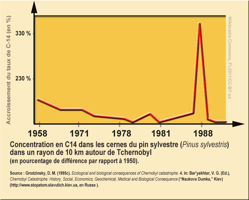 Concentration of C-14 in tree rings of pine (Pinus sylvestris) ; percent difference from the level in the year 1950 ; in the 10-km zone near Chernobyl nuclear plant (Grodzinsky et al., 1995).